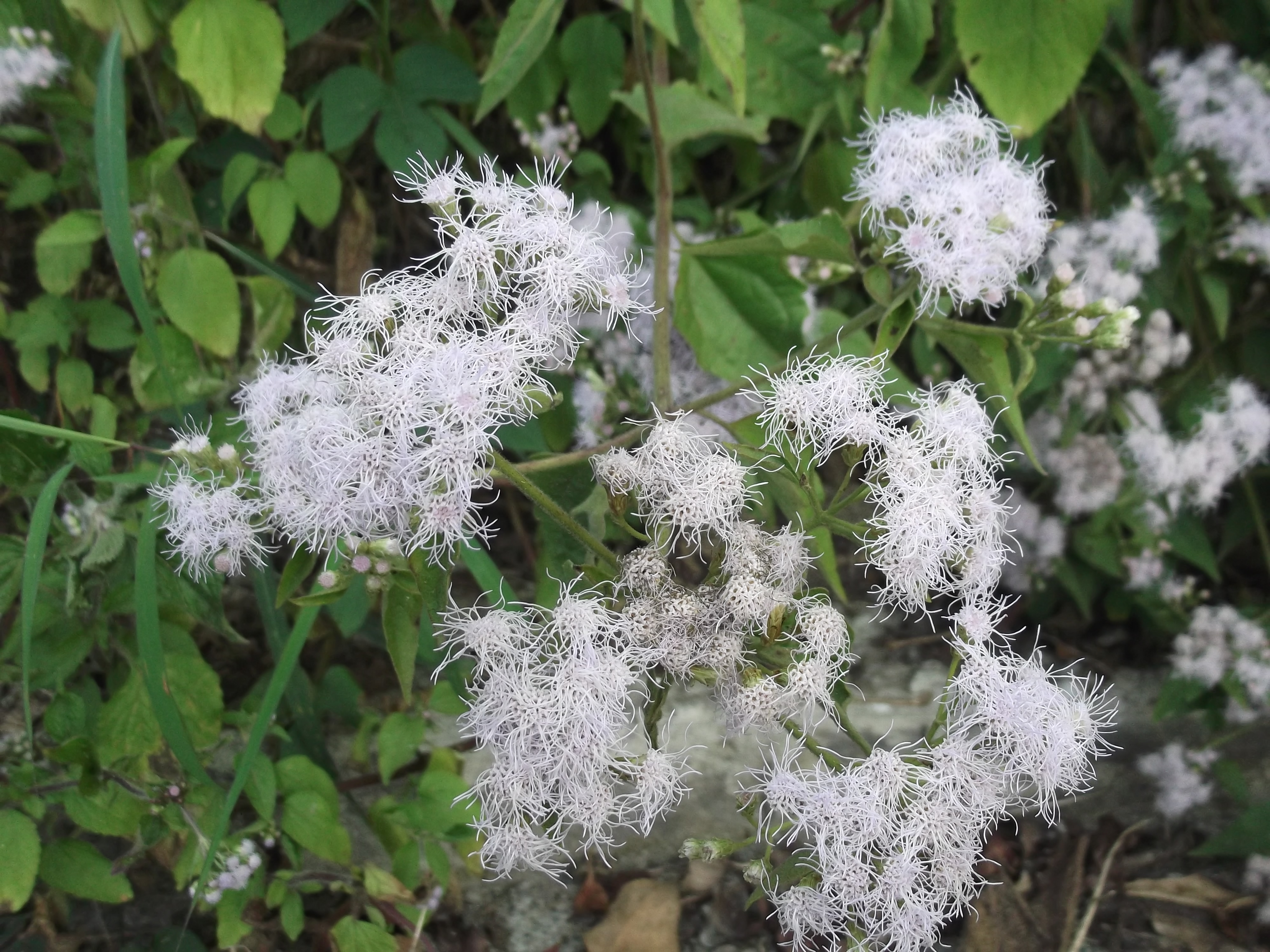 Australian weed,flowers purple.